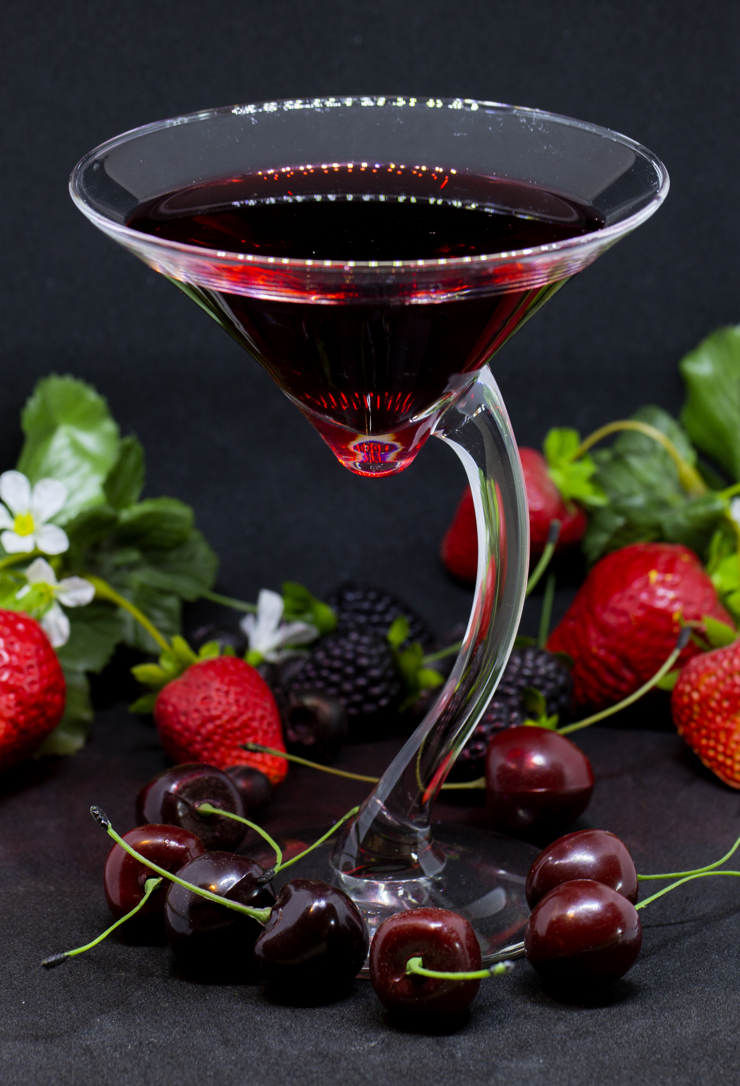 Montmorency Cherry juice in a curved stem martini glass with the base garnished in cherries. The background has strawberries and blackberries.